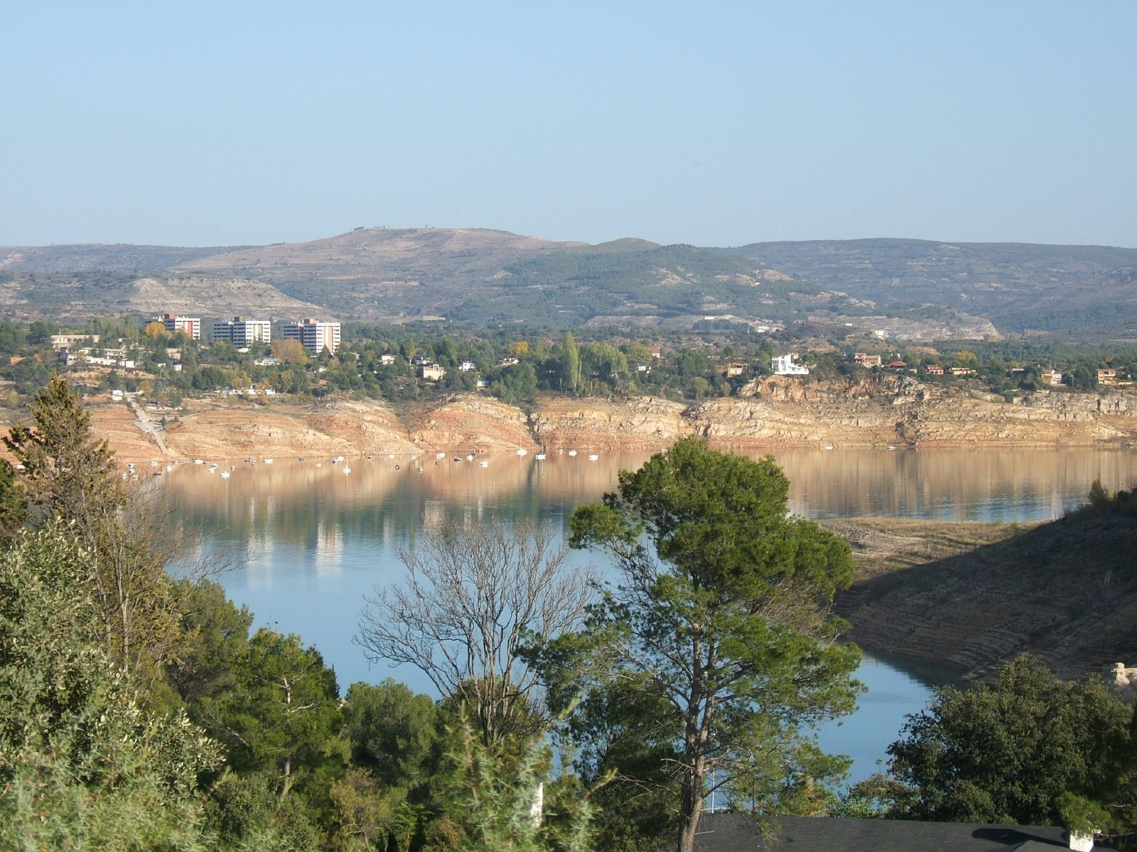 The urbanization Las Anclas (Pareja, Guadalajara, Spain) next to Entrepeñas lake.